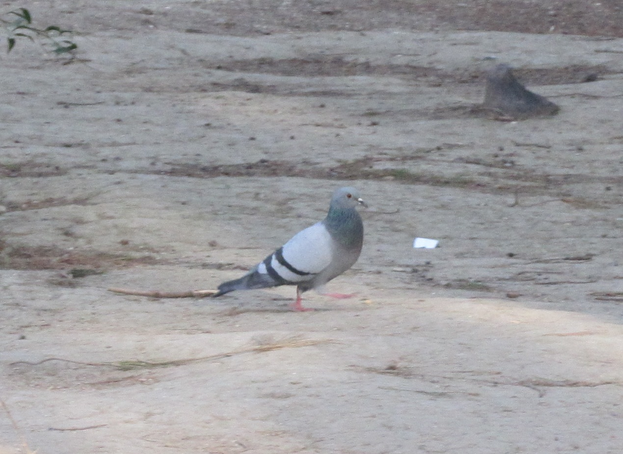 Columba in the park